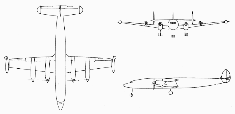 Line drawings for the U.S. Navy Lockheed R7V-2 Super Constellation (Lockheed Model L-1249). The R7V-2 was powered by four Pratt & Whitney YT34-P-12A turboprops. Two aircraft were acquired by the Navy (BuNos 131630, 131631), and another two were ordered by the Navy for the U.S. Air Force (YC-121F, BuNos 131660, 131661).